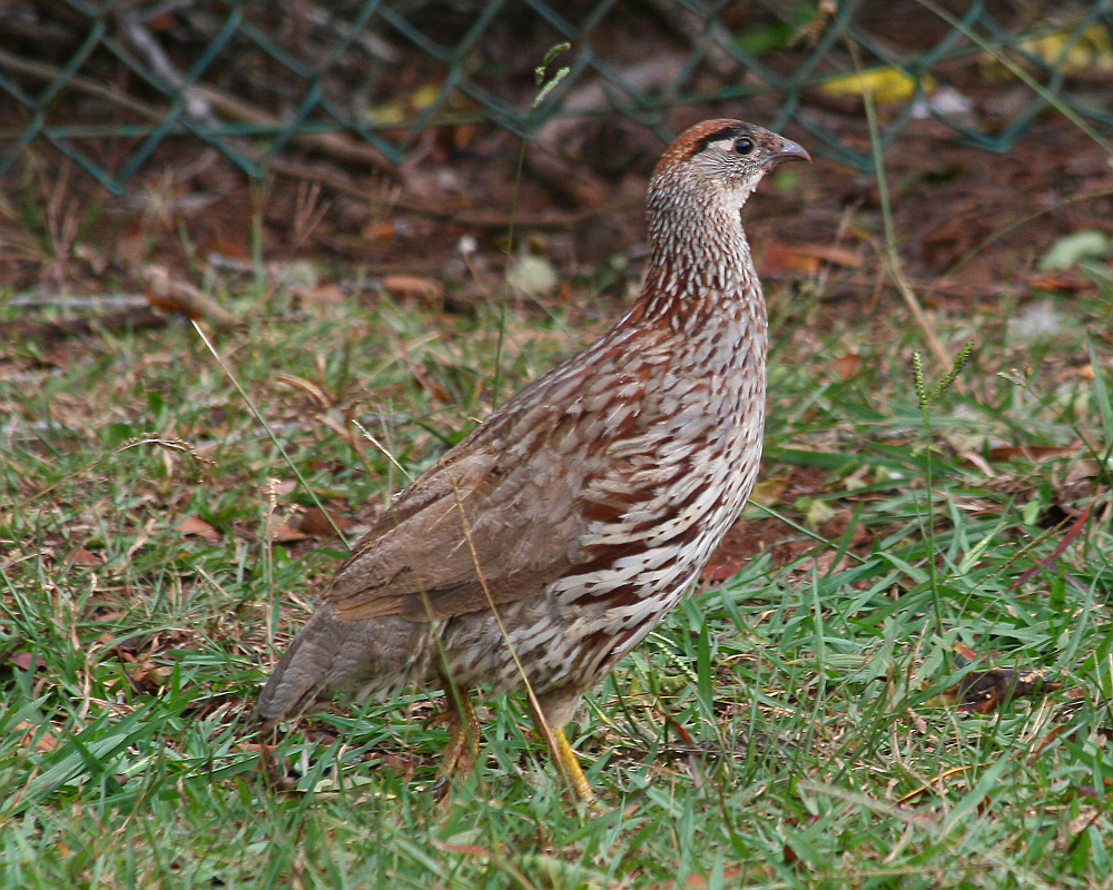 Erckel's Francolin near Waimea Canyon on the island of Kaua'i (where it was introduced from Africa in 1957)